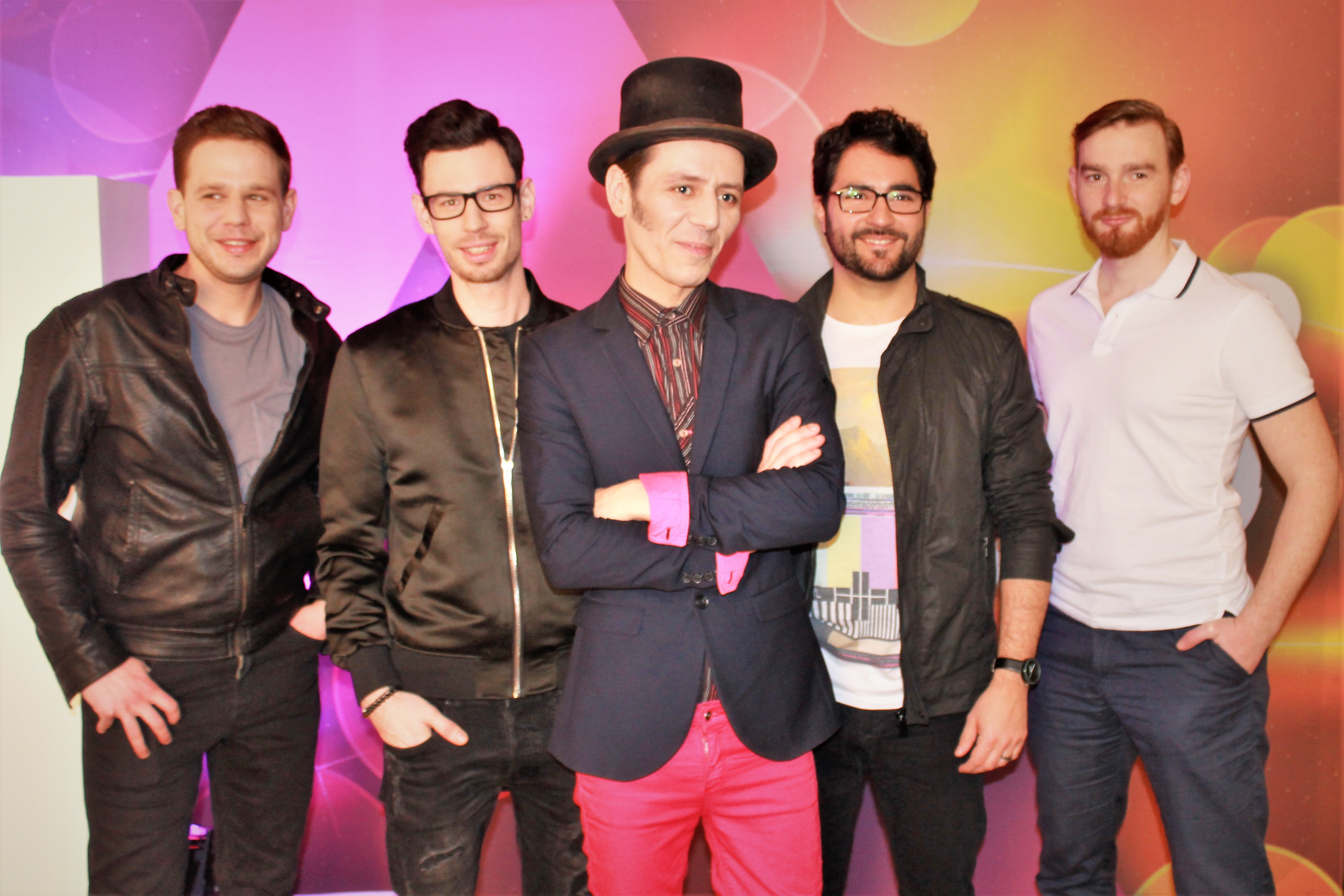 A Dal 2018 participant: Maszkura és a tücsökraj